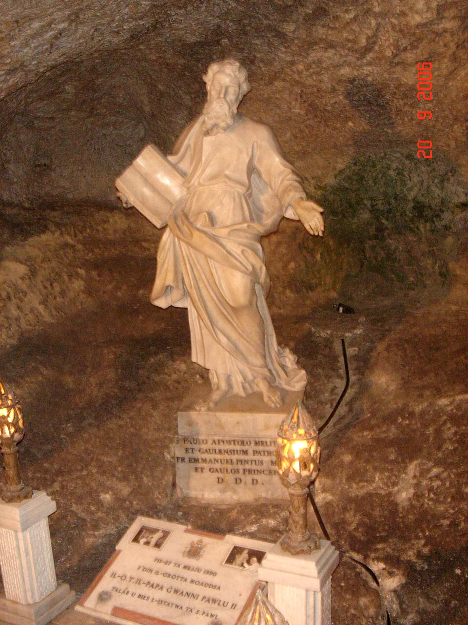 St Apostle Paul's grotto in Rabat (Malta)